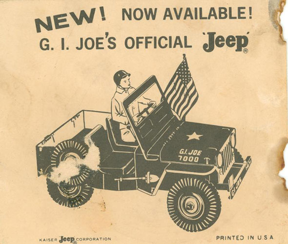 Back cover of the G.I. Joe Training Manual, with an advertisement for G.I. Joe's official Jeep.